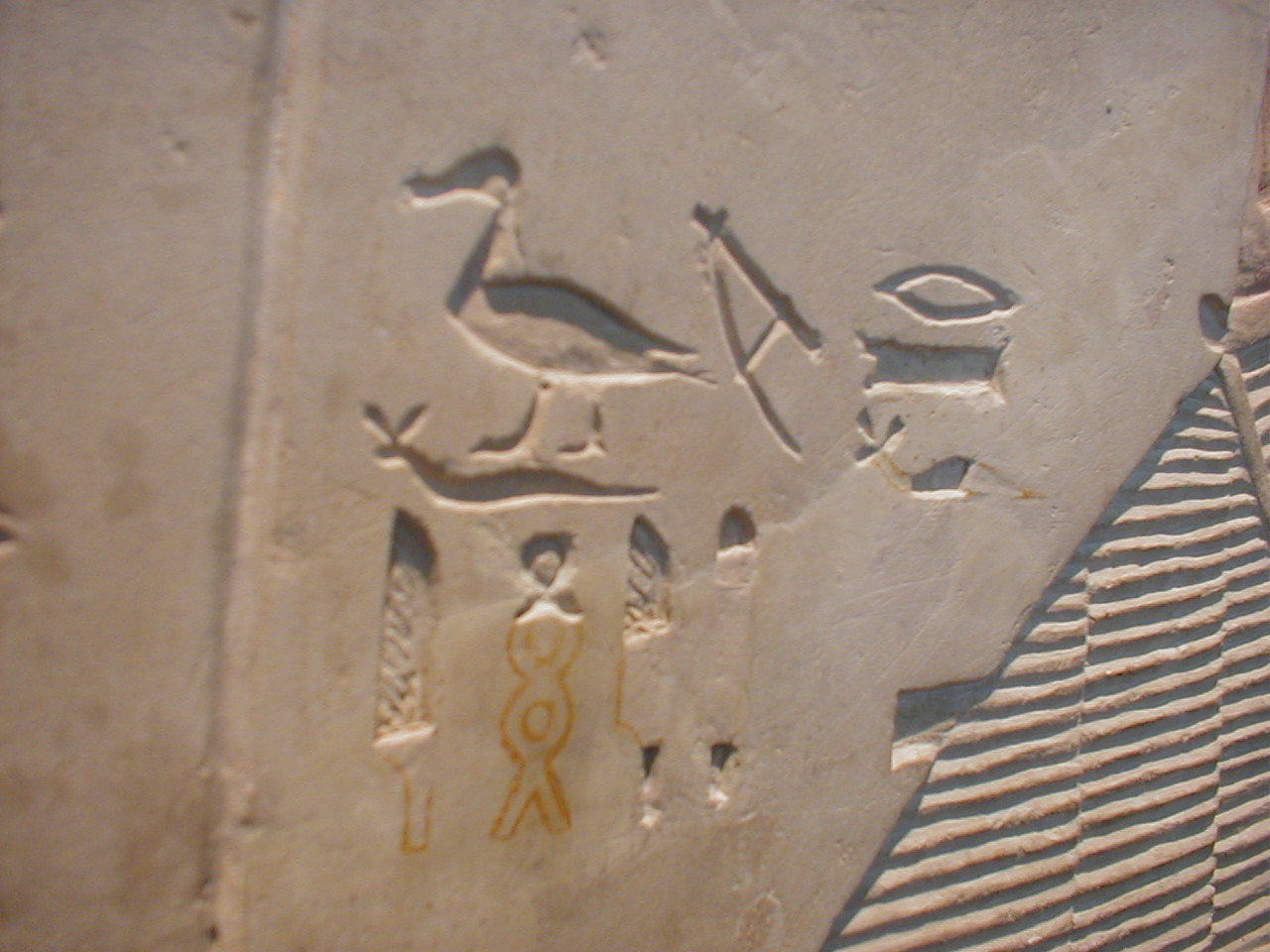 Tomb relief - Metheti and his son, Ancient Egypt, Saqqāra, Old Kingdom, 5th dynasty, approx. 2400 B.C., showing incomplete carvings of hieroglyphs in lime stone (Egyptian Museum Berlin)